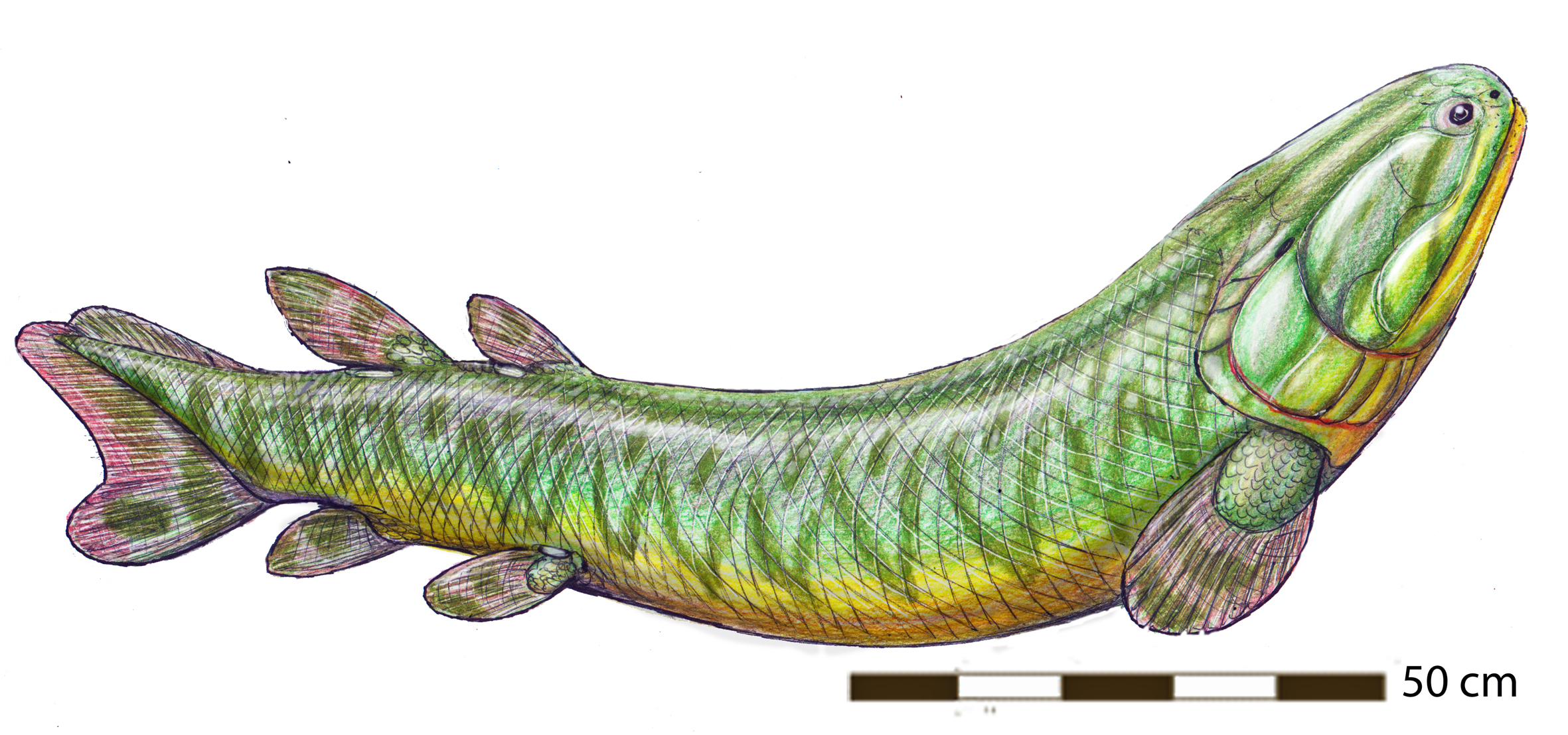 Megalichthys hibberti, an Osteolepimorph fish (crossopterygian) from Late Carboniferous - Pennsylvanian (318.1 - 298.9 Ma) of Scotland